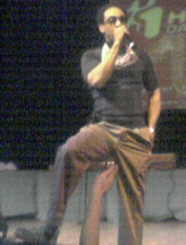 The other half of Handsome Boy is Dan The Automator A.K.A. Dan Nakamura, one of the original creator of the Gorillaz. Their song "Clint Eastwood" is a favorite of mine. Photo of Dan not included.